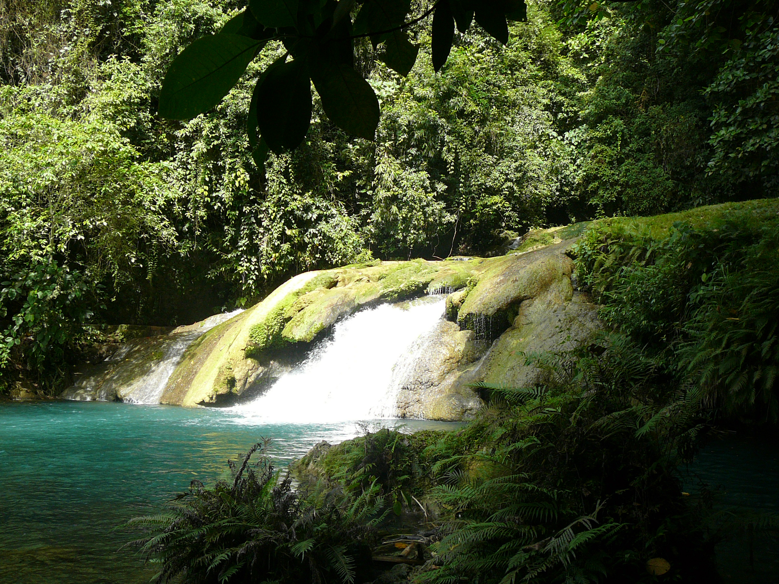 This is Cagnitoan Lagoon, which is hidden up in the mountain part of Maasin City.